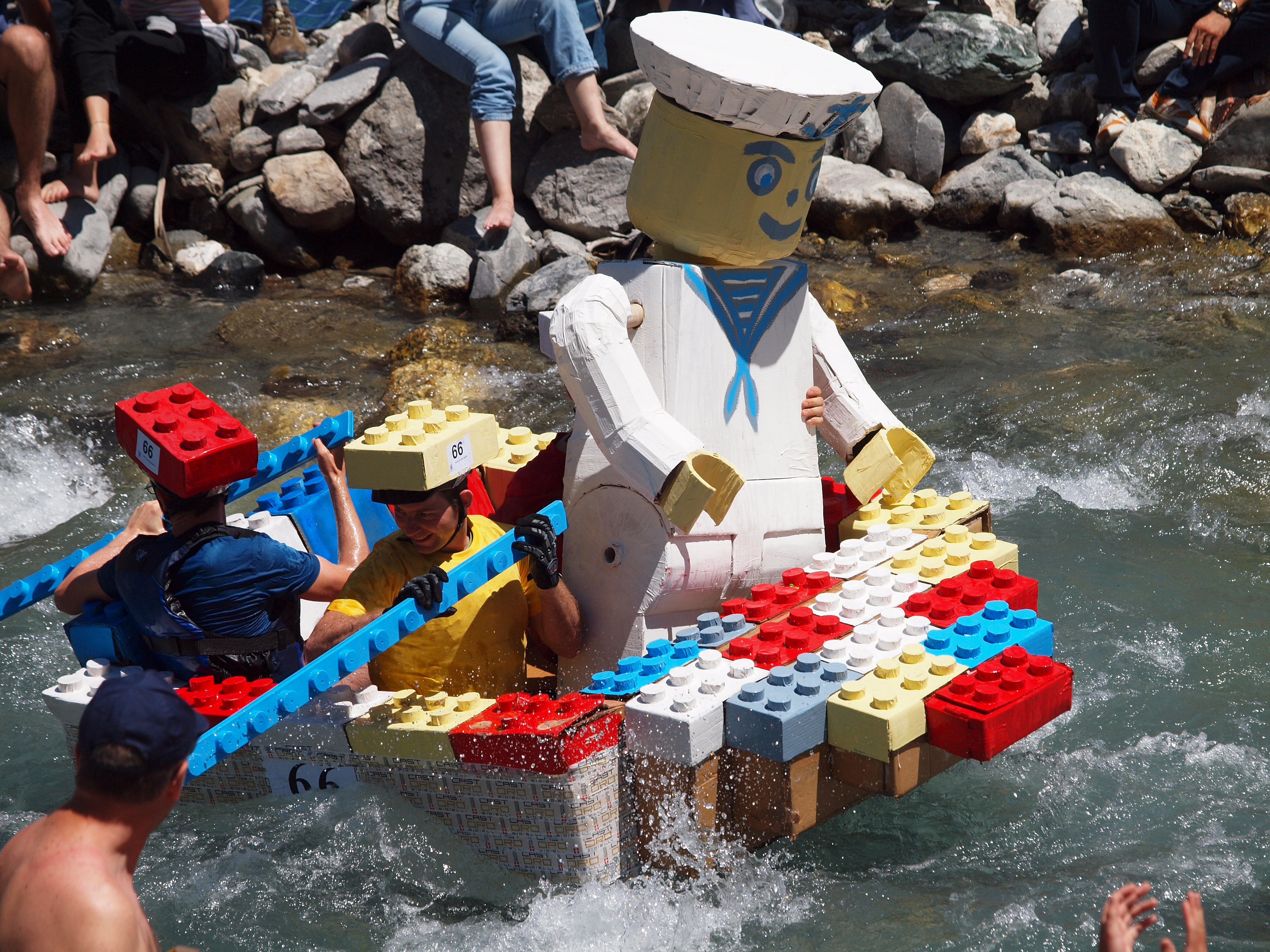 A boat during the 2011 edition of Carton Rapid Race.